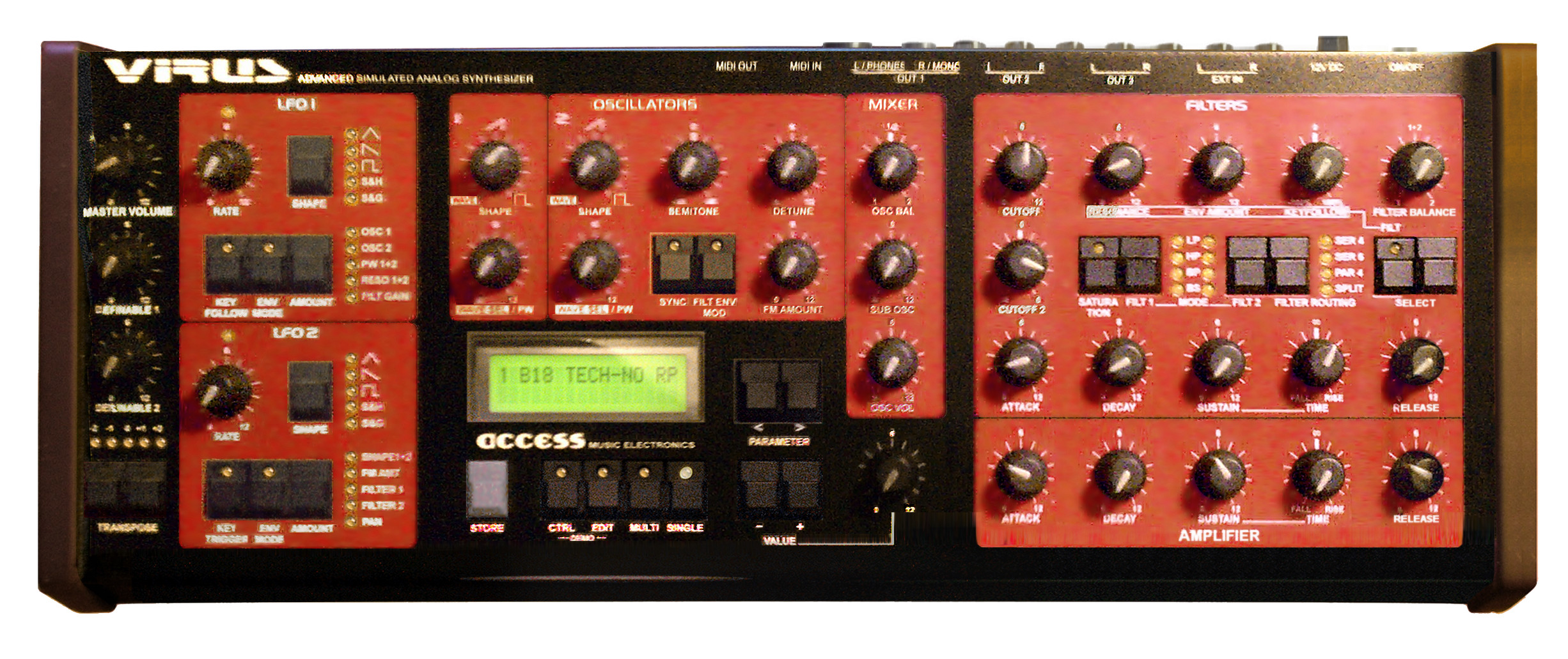 Access Virus Virus A one of the best analog modeling synths ever made, Rob Papen is a god in the patch world